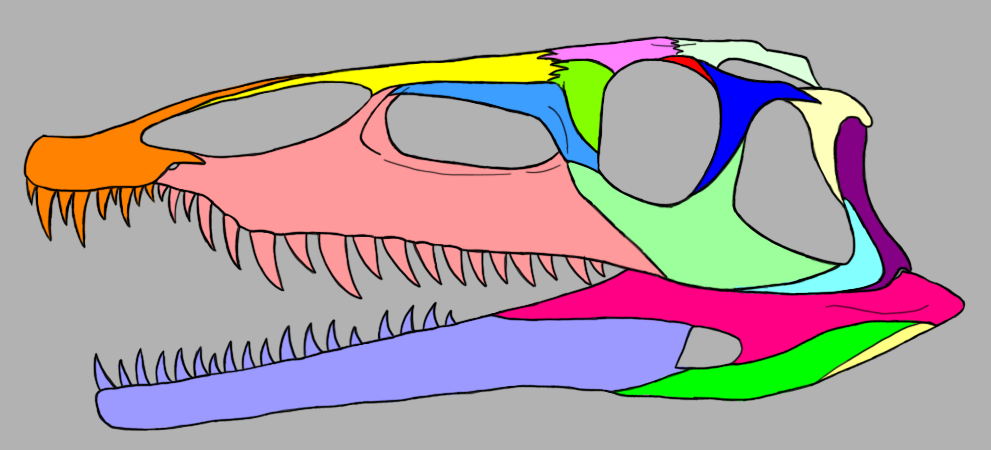 The skull of Qianosuchus mixtus in left lateral view, based primarily on the paratype specimen. Bones are individually color-coded almost identically to those of by AS. The two exceptions to this rule is the fact that the postfrontal is colored bright red instead of the sclerotic ring (which is not depicted), and the prearticular of the lower jaw is beige rather than the splenial (which is not visible in lateral view in this genus). Legend: Premaxilla Maxilla Nasal Lacrimal Prefrontal Frontal Jugal Postorbital Postfrontal Parietal Squamosal Quadrate Quadratojugal Surangular/articular Prearticular Angular Dentary